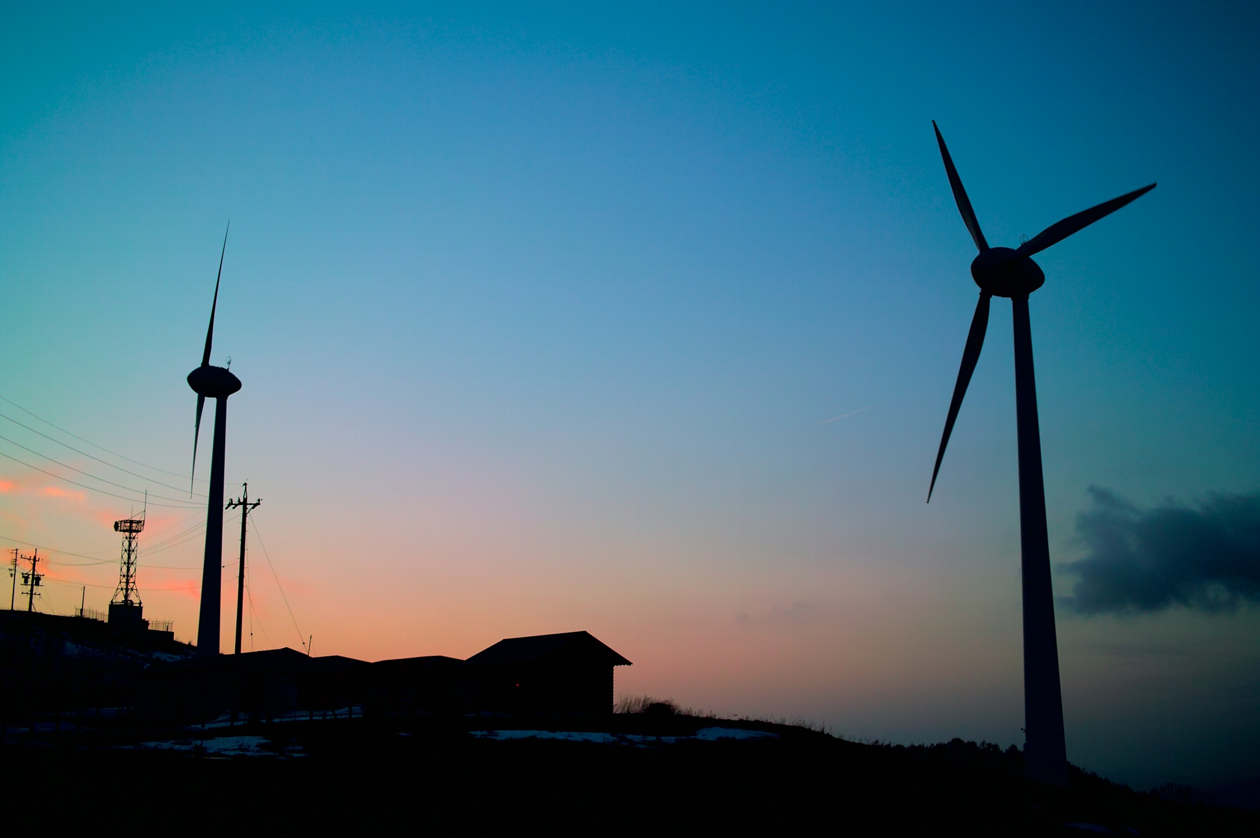 Inabucho, Toyota, Aichi Prefecture 441-2513, Japan